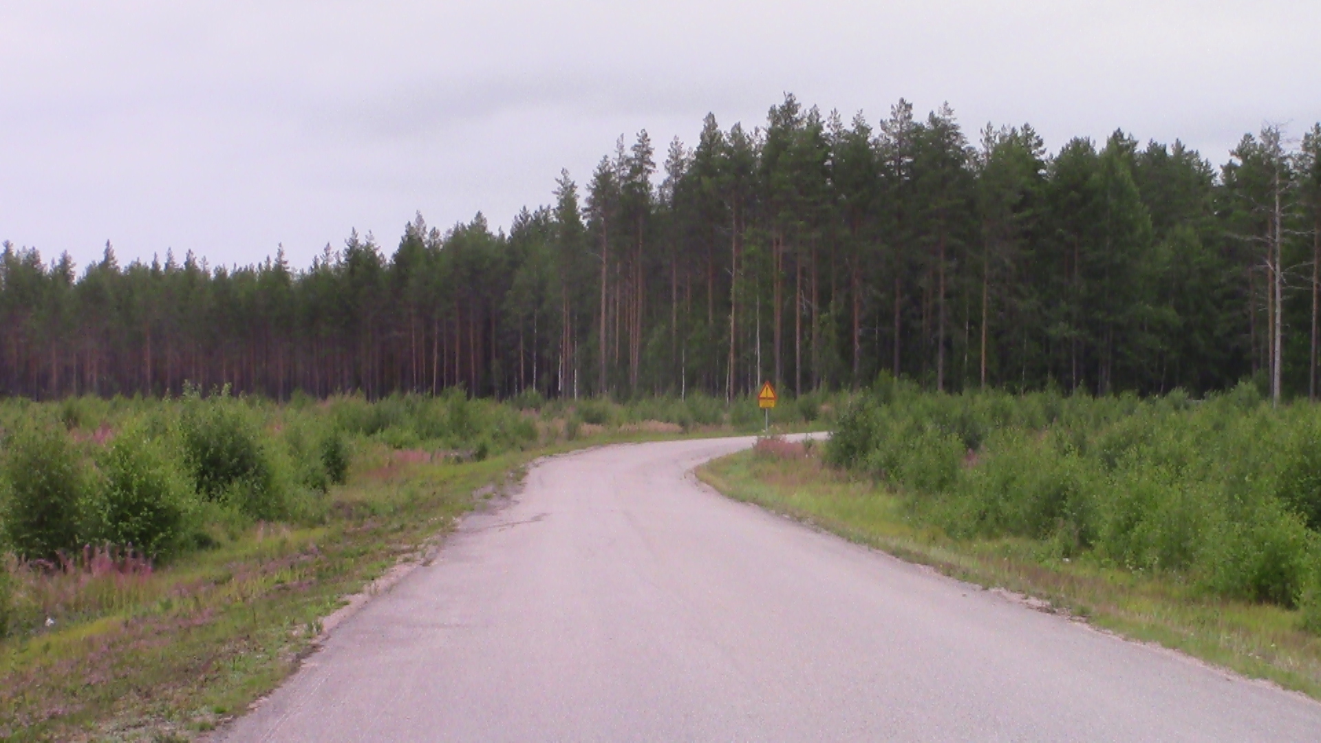 Connecting road 3353 near old Korte railway station in Virrat, Finland. The road runs from Kantoperä to Koivistonperä.